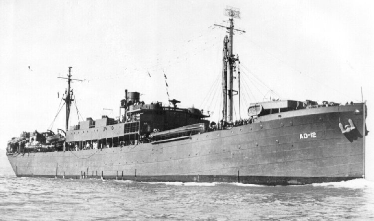 The U.S. Navy destroyer tender USS Denebola (AD-12) underway, circa in 1945.